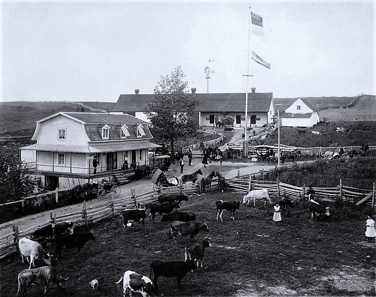 Photograph, Wilfred Rotte's farm, St. Jérome, Lake St. John, QC, about 1906, Wm. Notman & Son, Silver salts on glass - Gelatin dry plate process - 20 x 25 cm. The tree near the farmhouse, probably an elm, is c. 10 m high, the flagpole c. 15 m. The horse with the 2-wheeled cabriolet is neighing.